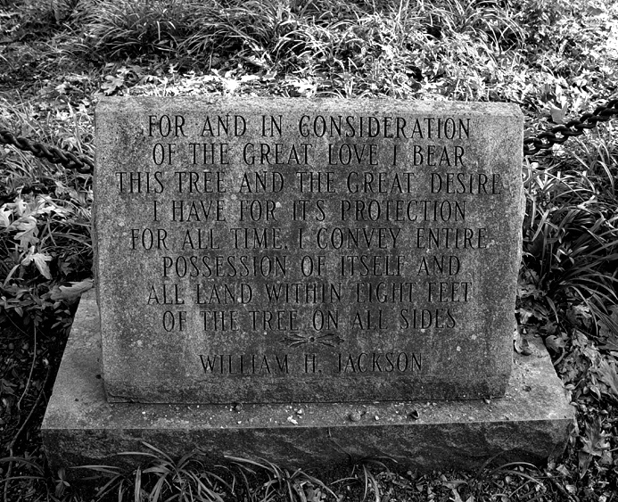 The younger plaque at the site of the Tree That Owns Itself.